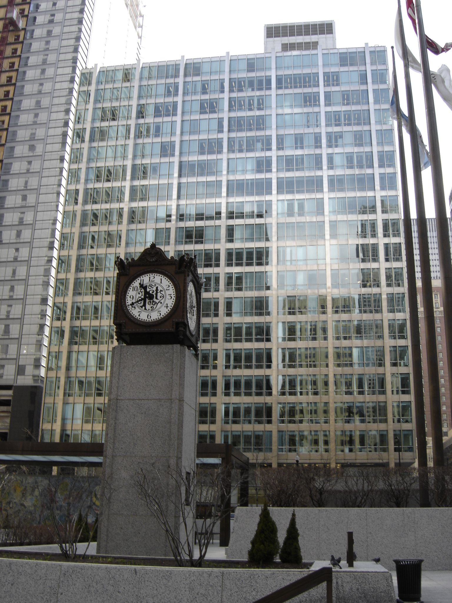 Inland Steel Building in Chicago, Illinois